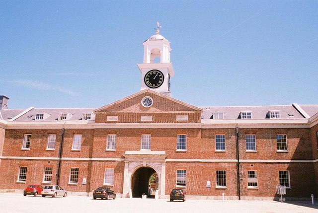 Portsmouth: flats at Gunwharf Quays This former milltary building at Gunwharf Quays has been converted into dwellings.